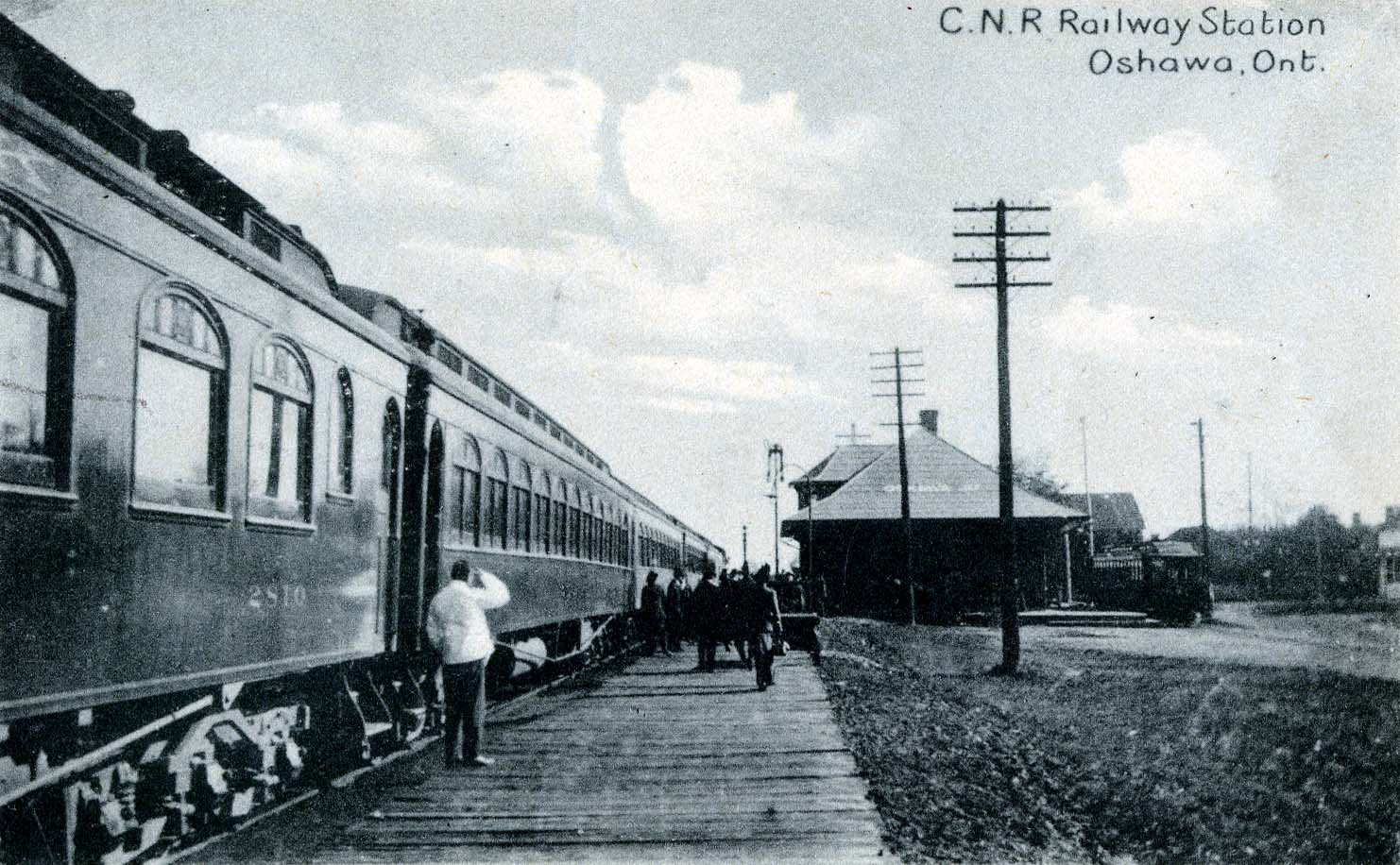 Black and white photo of a train leaving the Canadian National Railway station in Oshawa, Ontario. This station was originally built by the Grand Trunk Railway.